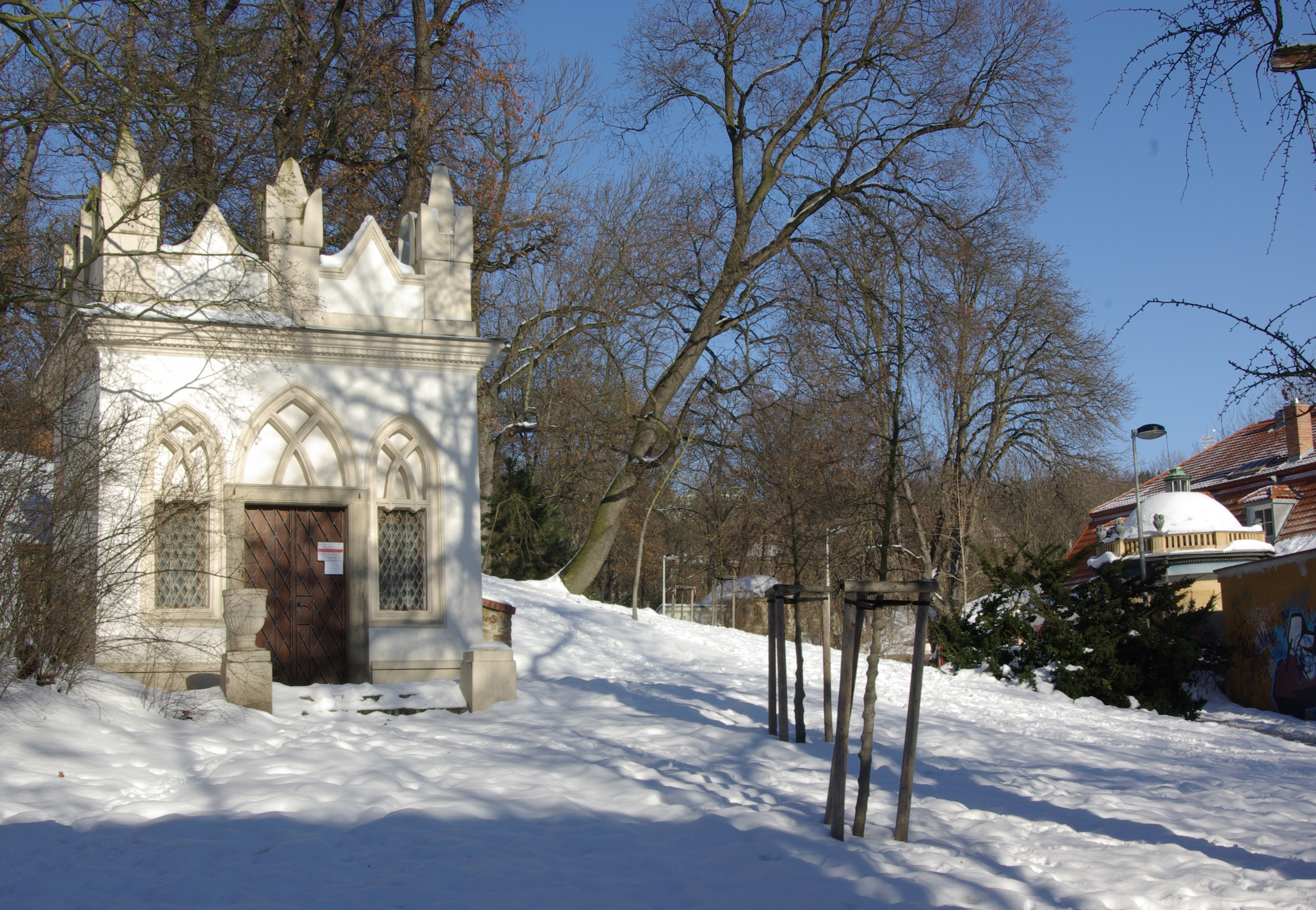 Klamovka, Prague